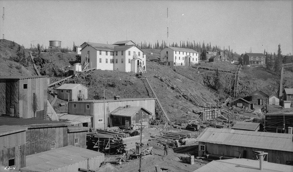 The Eldorado mine on Great Bear Lake, Northwest Territories, August 1944